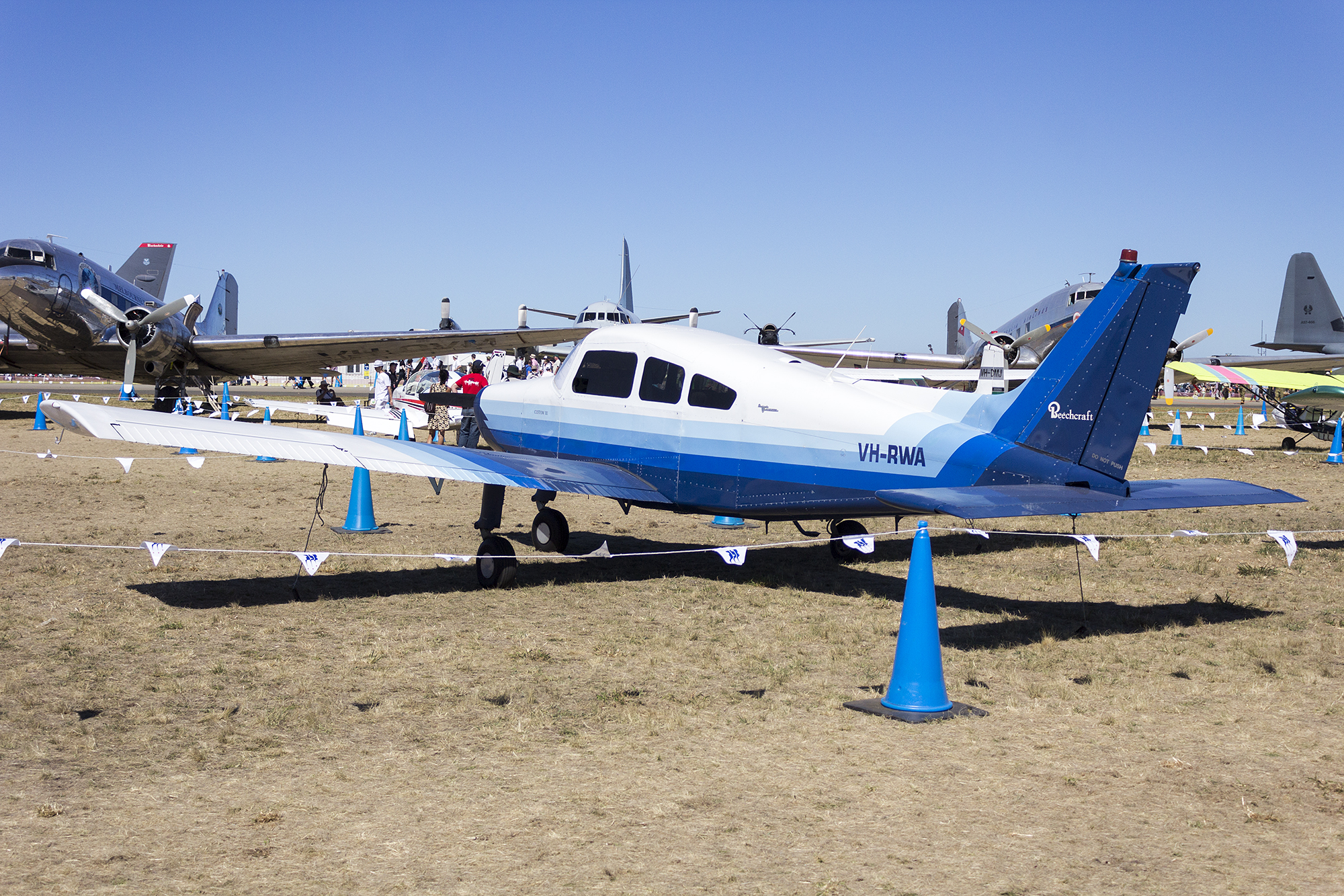 Beechcraft A23A Musketeer (VH-RWA) at the 2013 Avalon Airshow.